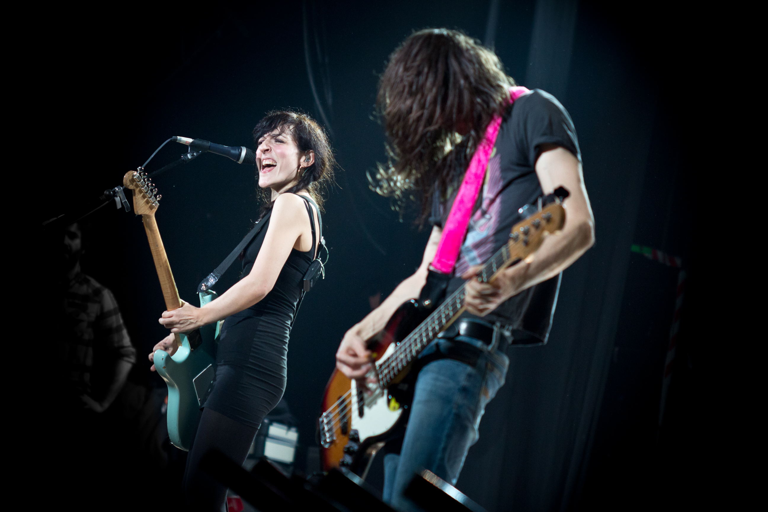 Spanish band Dover in 2014 during their Dover came to me tour.